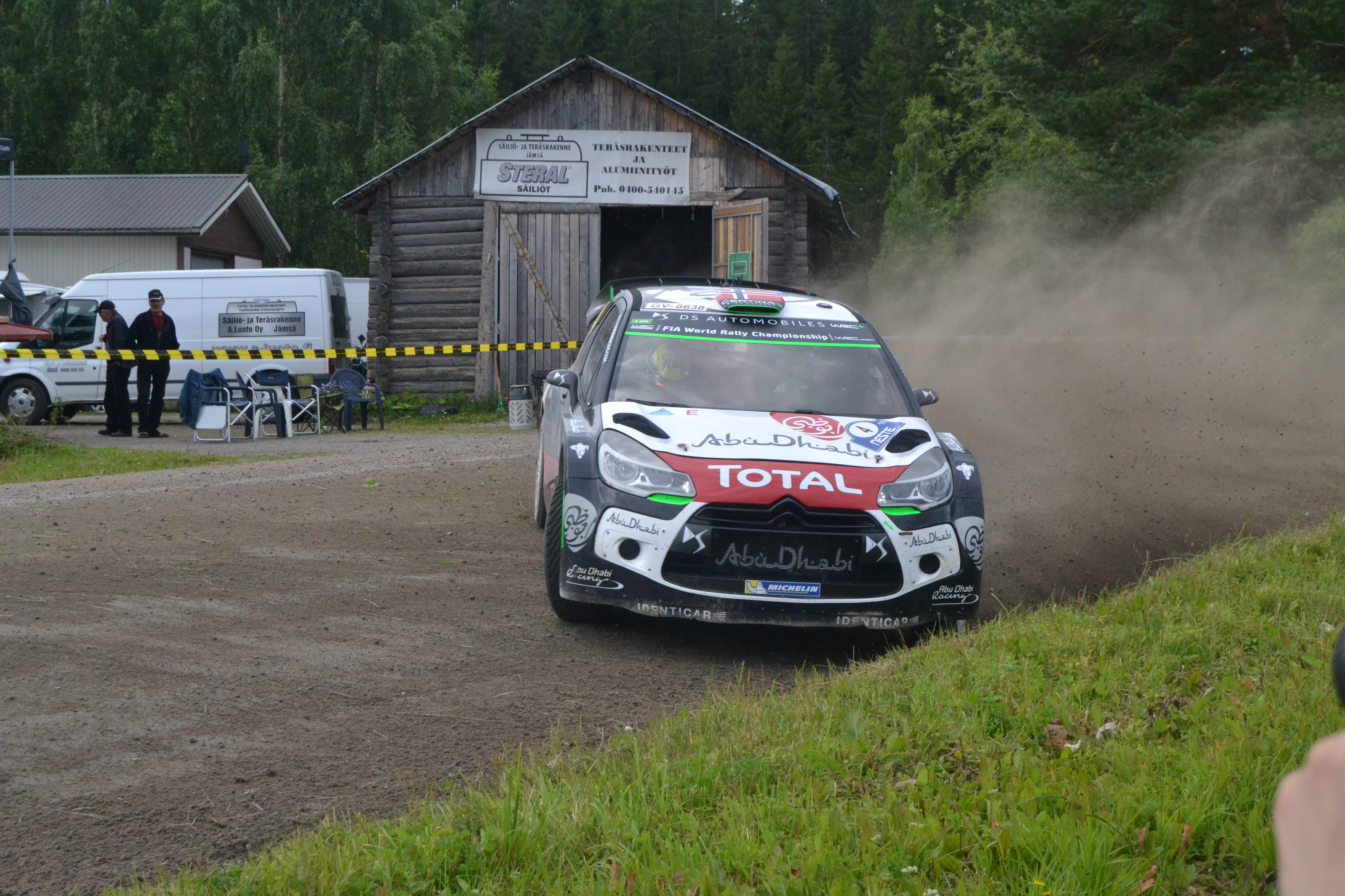 Mads Østberg at 1st Ouninpohja stage at Rally Finland 2015